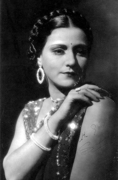 Sulochana (real name Ruby Myers)